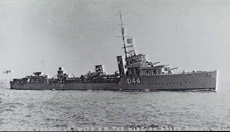 AWM caption : "HMS VALHALLA AT SEA, 1921-08-08. KING GEORGE V AND QUEEN MARY ON BOARD HMS VALHALLA. THE ROYAL PARTY ARE ON THE DECK BELOW THE SEARCH LIGHT PLATFORM. LIEUTENANT R.P. MIDDLETON, RAN, ON EXCHANGE DUTY WITH THE RN IS ON THE BRIDGE BELOW THE FLAGS."